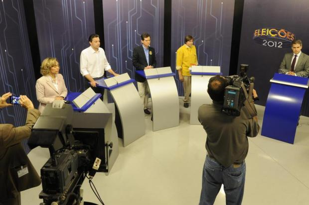 Debate 2012 RBS Blumenau